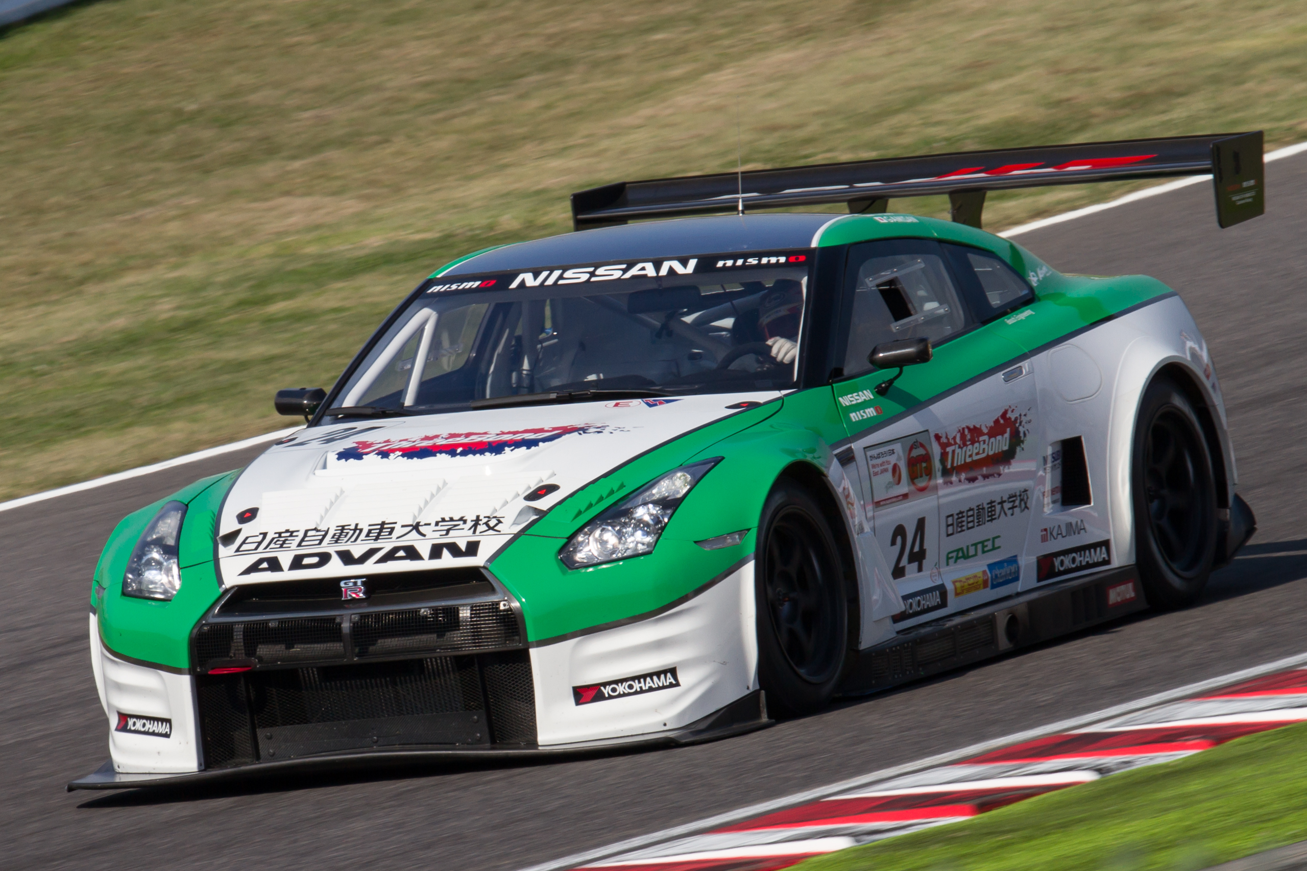 Super Taikyu 2012 Rd.5 Suzuka: Three Bond Nissan Technical School GT-R